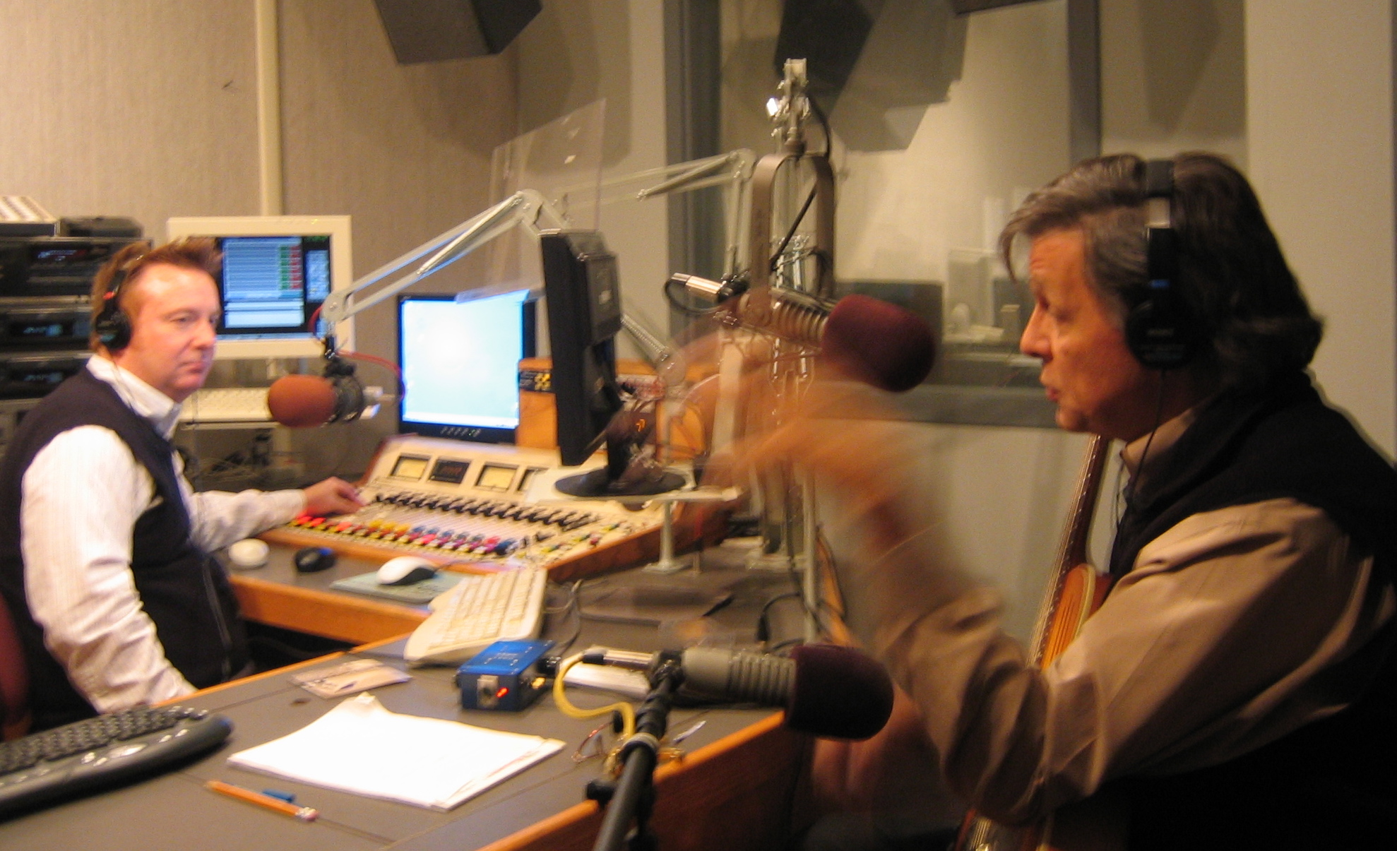 Keith Shortall , news director @ Maine Public Broadcasting Network interviews New Orleans guitarist John Rankin for a recen piece for Maine Things Considered the weekday evening Maine news program.